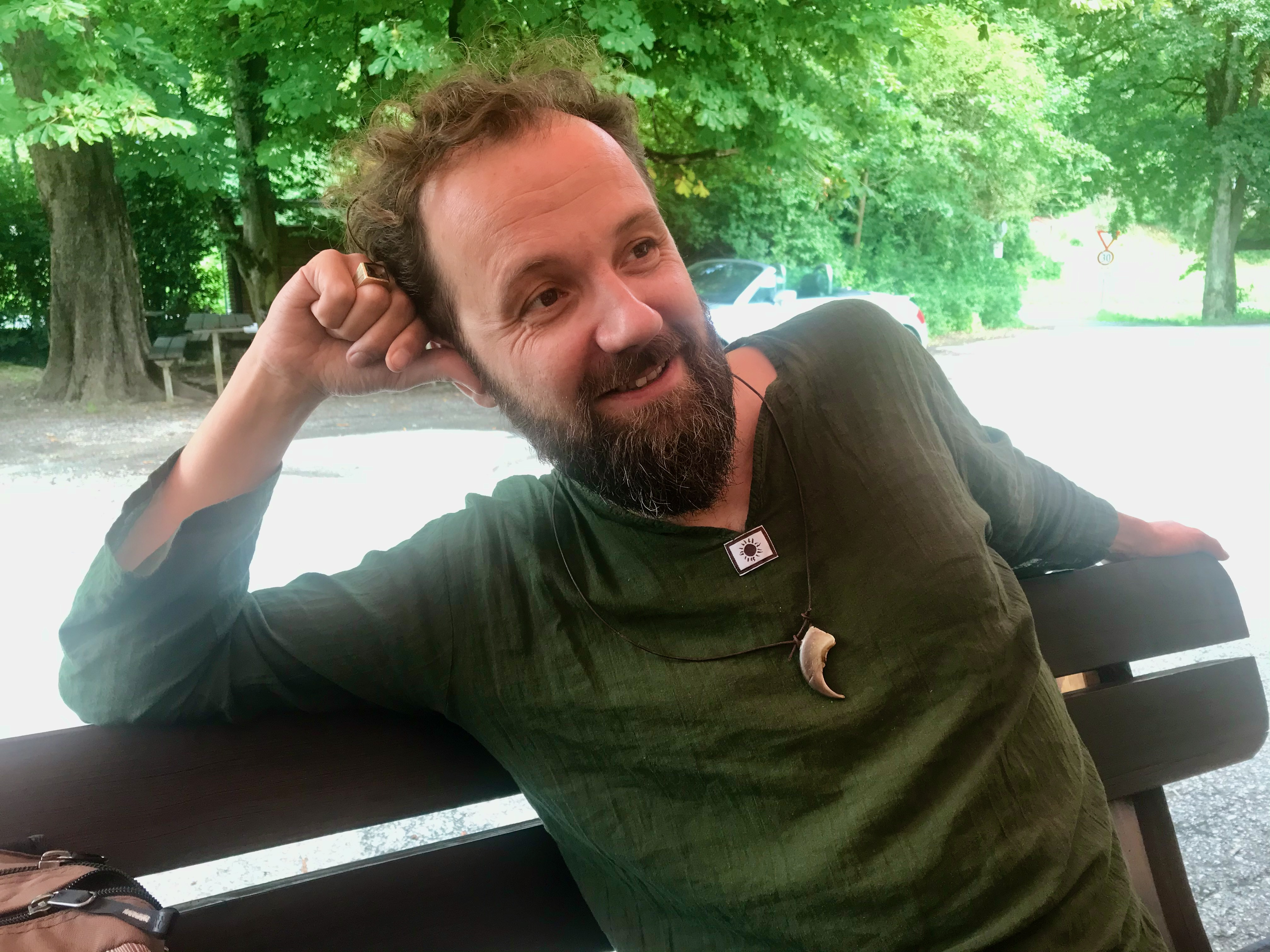 Austrian writer Thomas Antonic in a meeting with Paul Pechmann and Gerald Ganglbauer at "Huberwirt" in Stattegg, Summer 2020